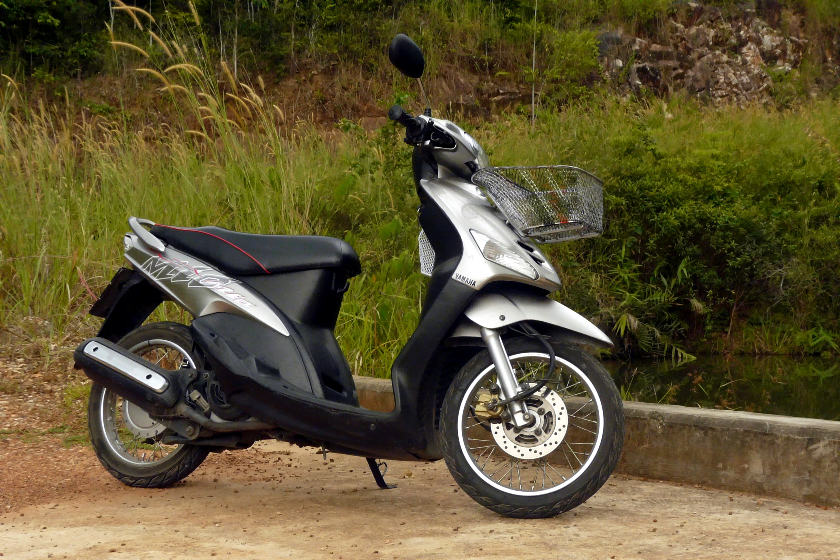 Yamaha Mio Z with modified front storage.